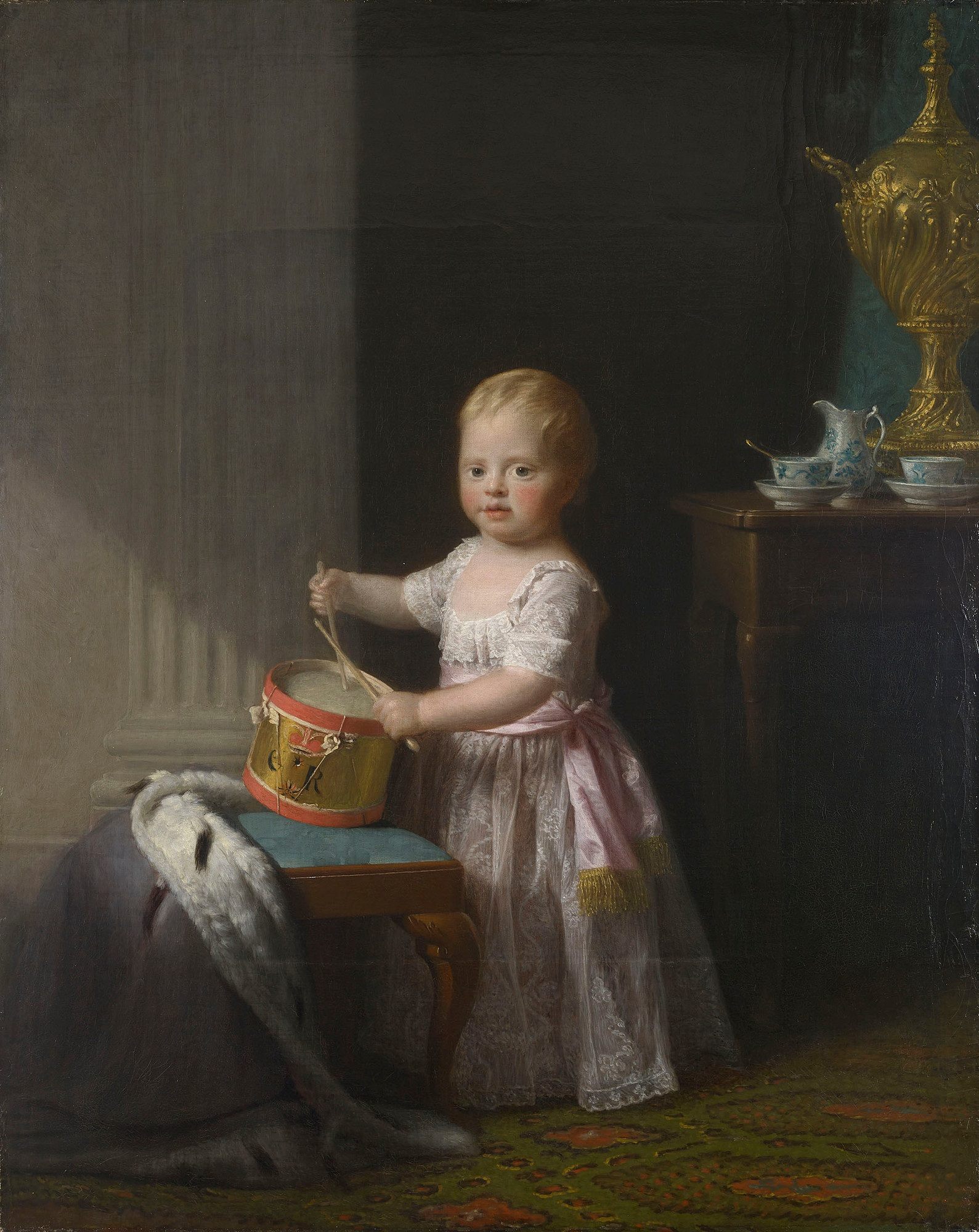 This portrait of c. 1767 shows the two-year-old Prince William (future William IV) as a boisterous baby beating a drum (decorated with the royal cipher) in what is otherwise a quiet and elegant setting (the contrast perhaps deliberate). The painting of the English silver-gilt hot water urn (what the Russians would call a 'Samovar') and china tea-cups and cream jug is especially subtle - the detail never asserting itself against the harmonious and soft half-light of the scene as a whole. The drum rests on a little stool over which is draped an ermine-lined mantle. Like the portrait of Queen Charlotte with her two eldest sons (OM 998, 404922), the head was executed on a separate piece of canvas and stitched into the larger composition.